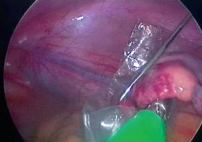 Retrieval of appendix in an Endobag.